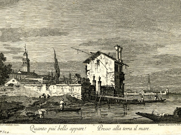 Plate 4: landscape, after Canaletto, with stretch of water in the foreground, a gondola on the right, and beyond a wooden pier leading to the courtyard of a house; a church on the left. Etching.